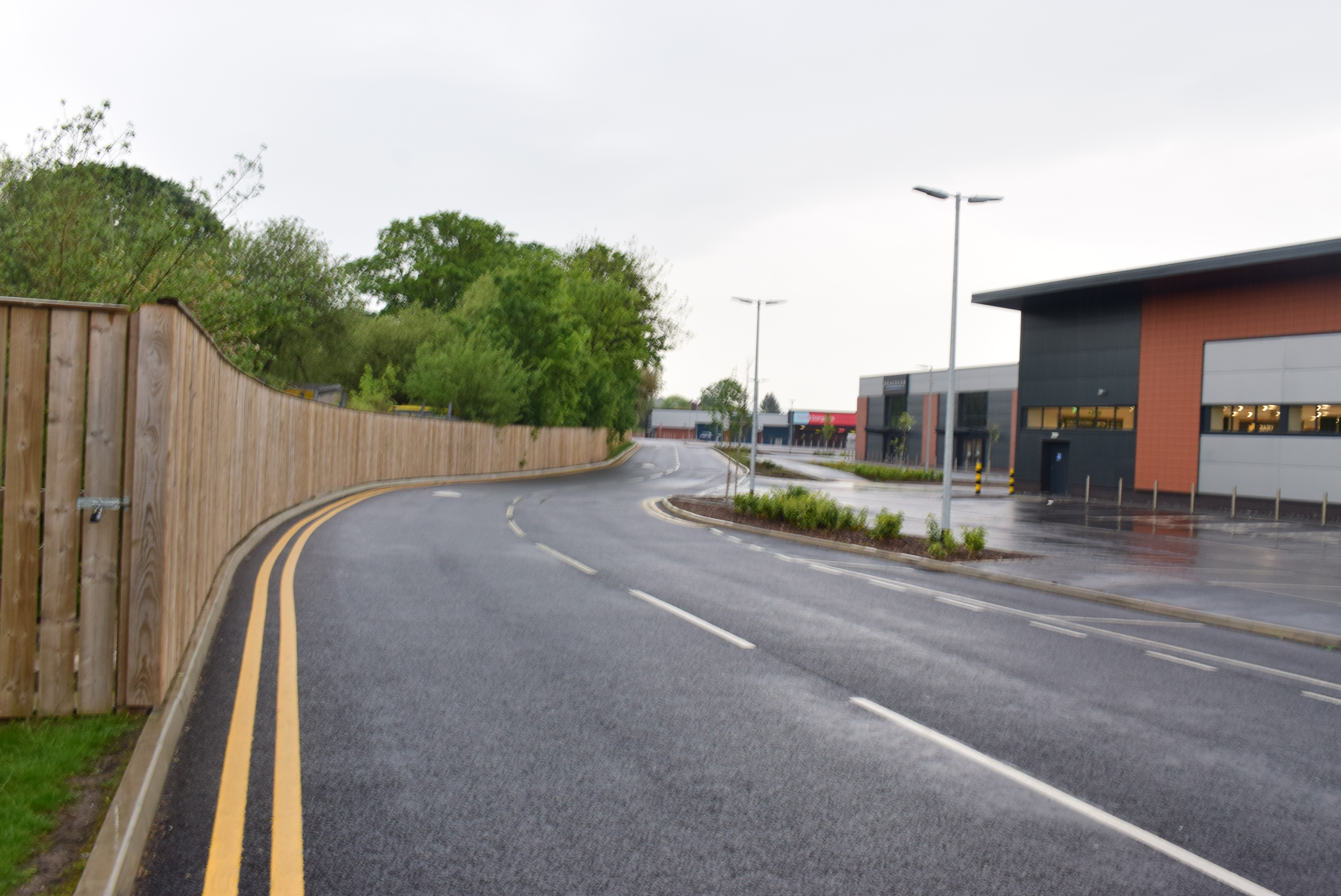 My own